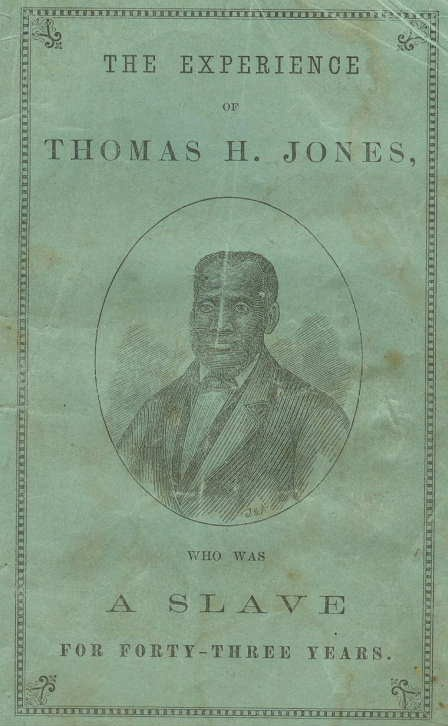 Front cover of book or booklet titled "The Experience of Thomas H. Jones Who Was a Slave for Forty-three Years" eBay store Web page states: "Written by a friend as related to him by Brother Jones" (information possibly taken from the title page); "American imprint! [...] New Bedford : E. Anthony & Sons, 1871. 46 pages. Frontispiece shows woodblock print of ship, signed Taylor-Adams.